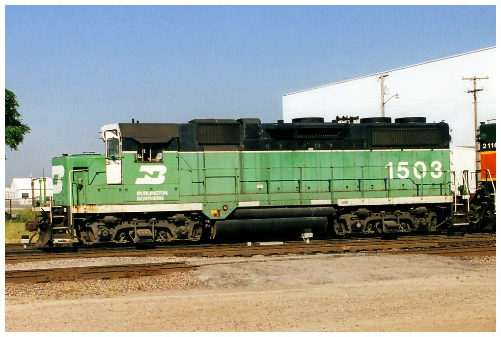 Burlington Northern Railroad 1503 EMD GP28M